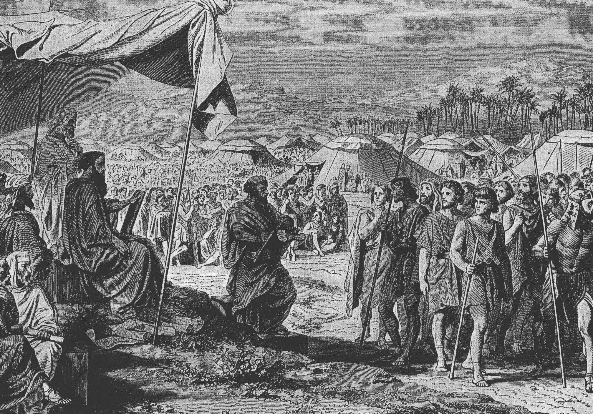 The Numbering of the Israelites, as in Numbers 1, engraving by Henri Félix Emmanuel Philippoteaux (1815–1884)